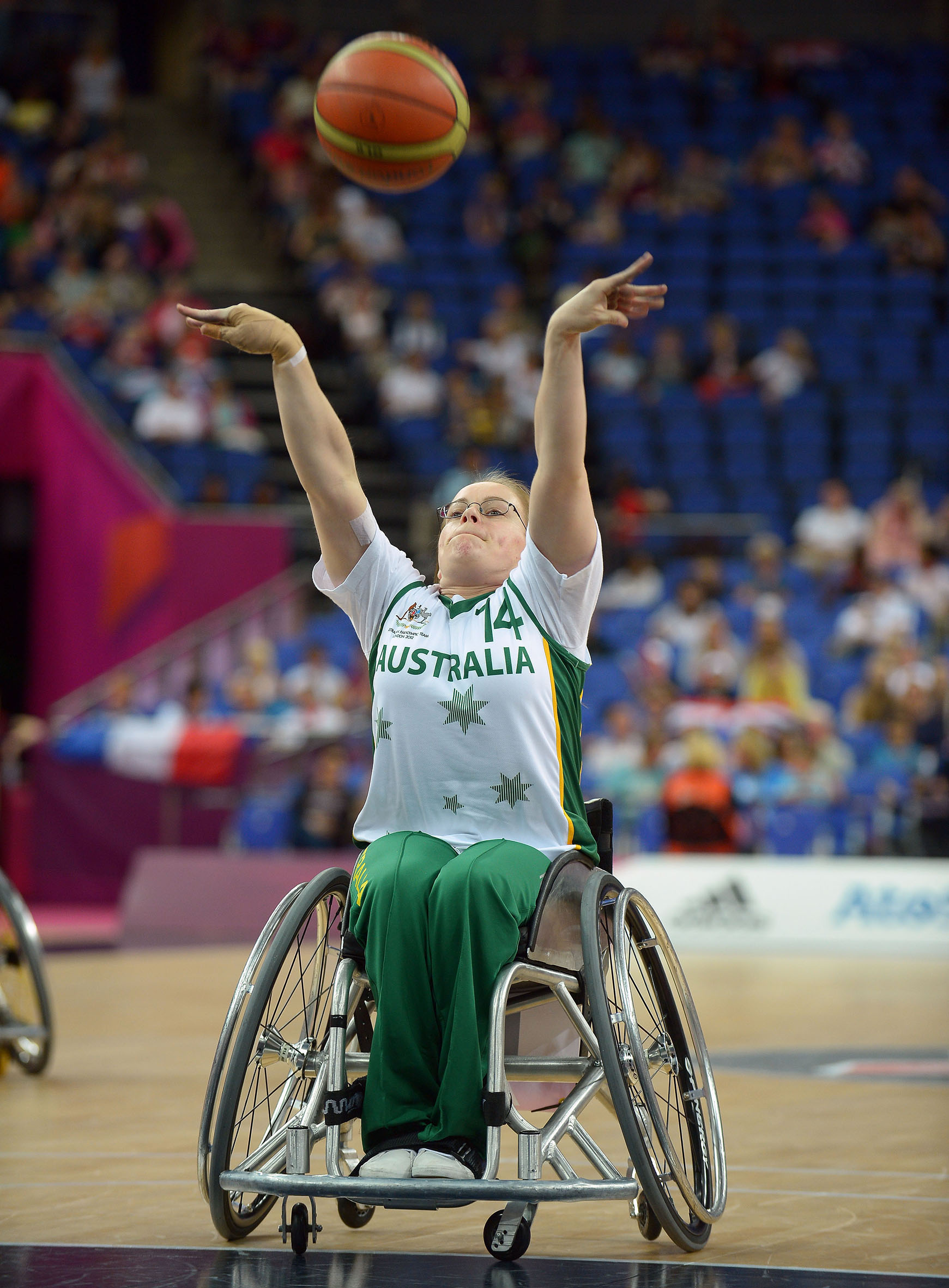 Photograph of Australian Paralympic team member Katie Hill at the 2012 Summer Paralympic Games in London